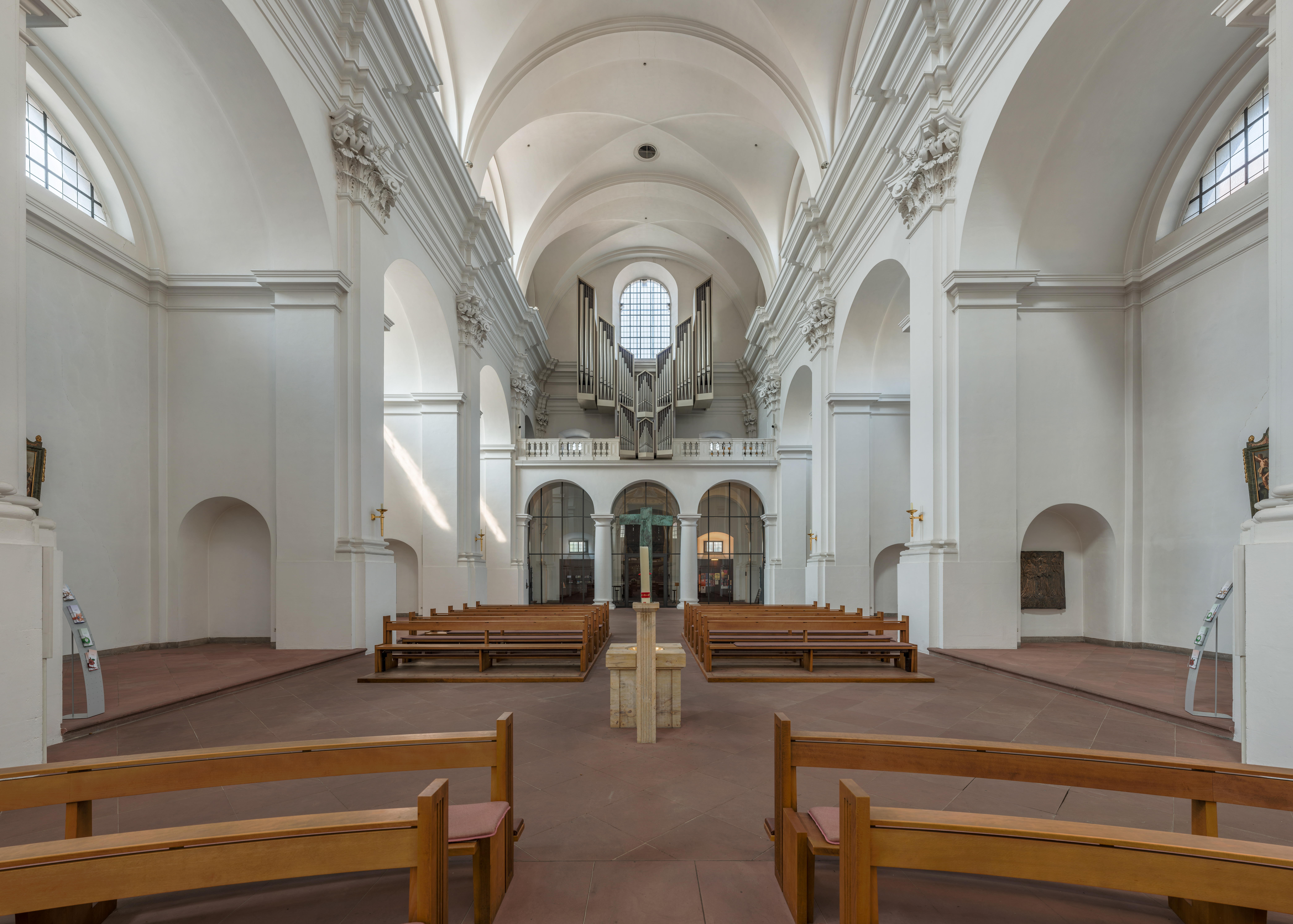 The nave and organ of Stift Haug, WürzburgThis is a photograph of an architectural monument.